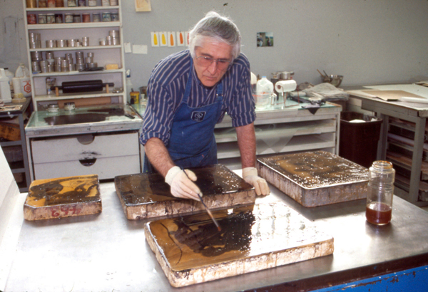 Kenneth Tyler processing lithography stones drawn on by Helen Frankenthaler for her 'Reflections' prints, Tyler Graphics Ltd., Mount Kisco, New York, 1994. Photographer: Marabeth Cohen-Tyler.